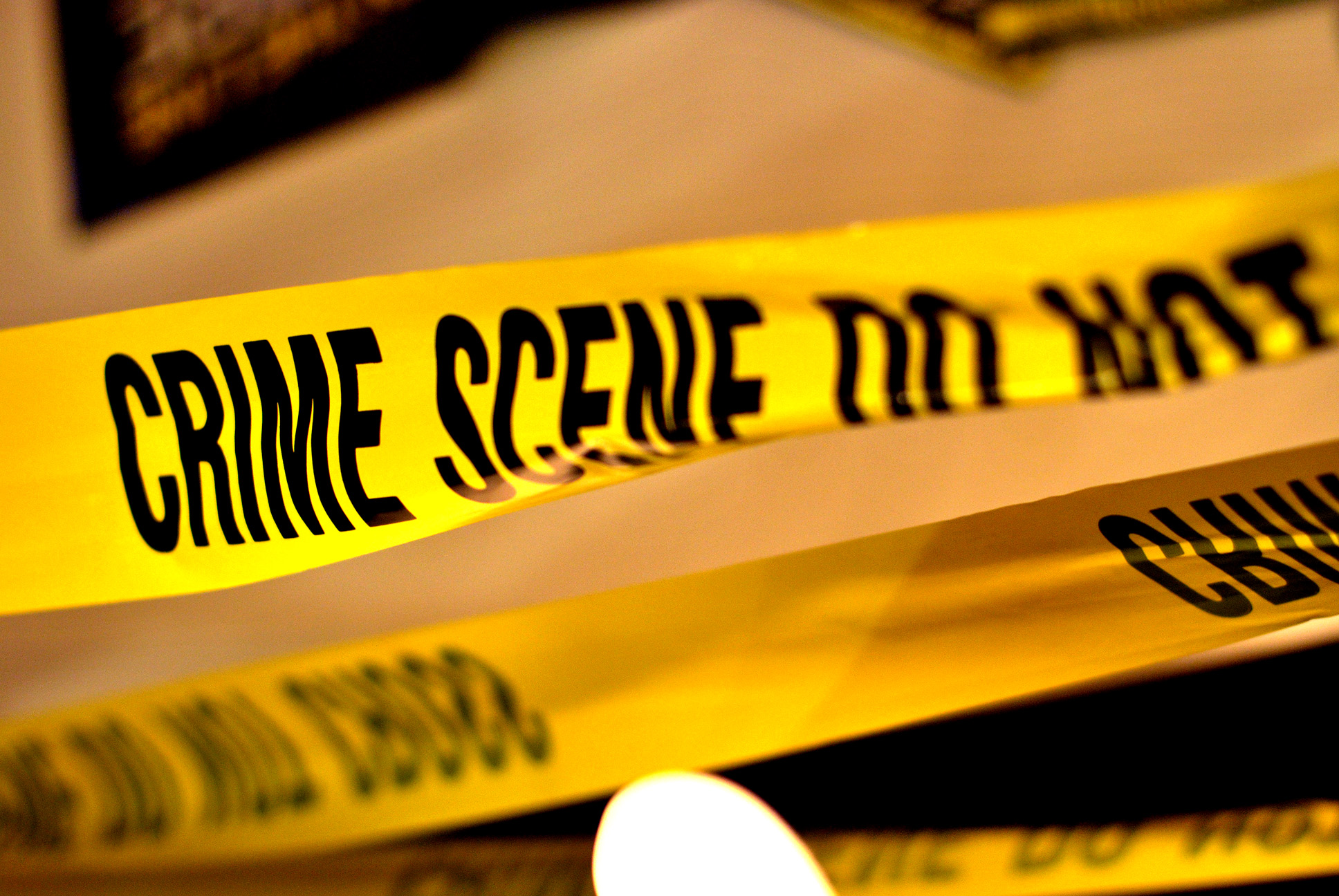 CRIME SCENE DO NOT CROSS / @CSI?cafe